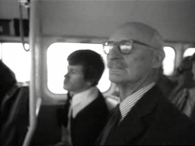 Christopher Cockerell, inventor of the hovercraft, riding in one of the offspring of his invention in 1976.